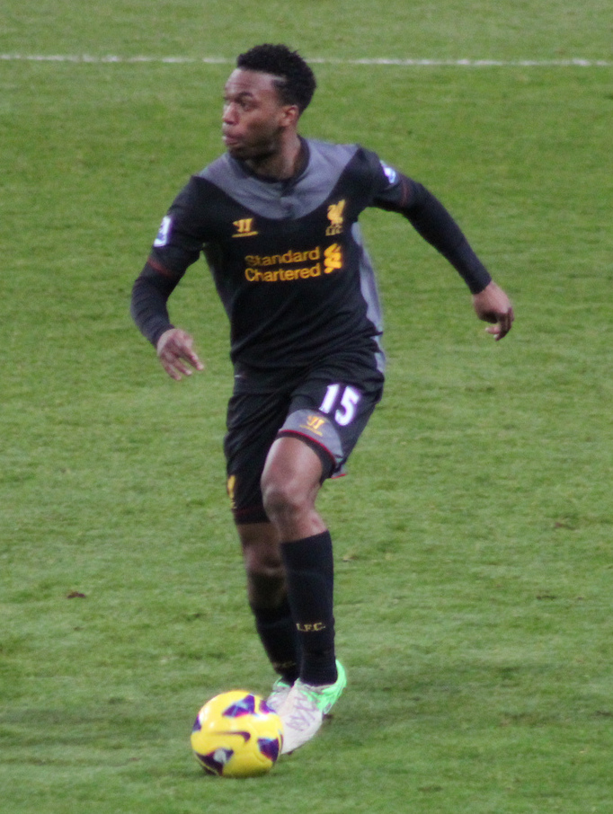 Daniel Sturridge playing against Arsenal at the Emirates Stadium on 30/01/2013.